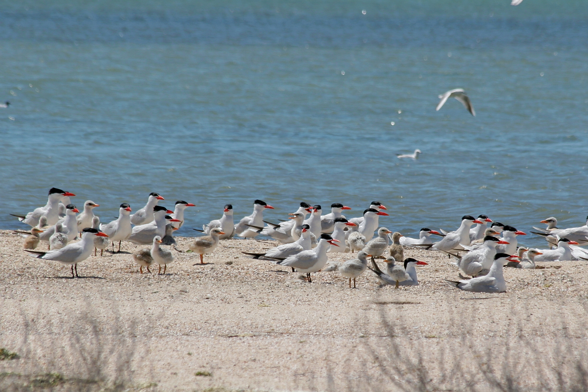 Caspian tern Hydroprogne caspia (Laridae) with chicks on the Smalenyi island (Tendrivska Bay, Black Sea Biosphere Reserve). This species is listed in the Red Book of Ukraine. From 10 to 100 pairs of Caspian tern nest every year in the Reserve.